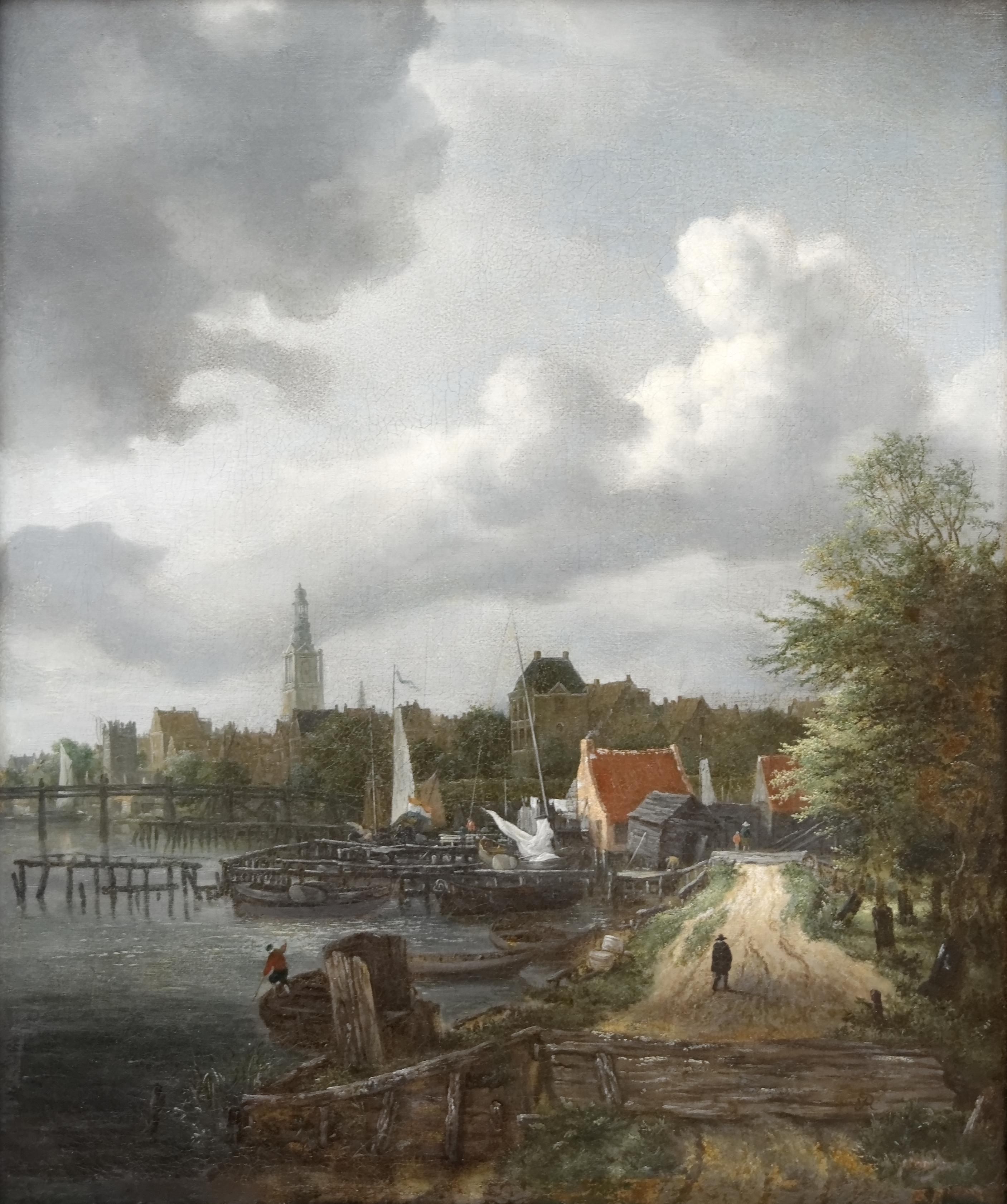 View of Binnen-Amstel in Amsterdam.